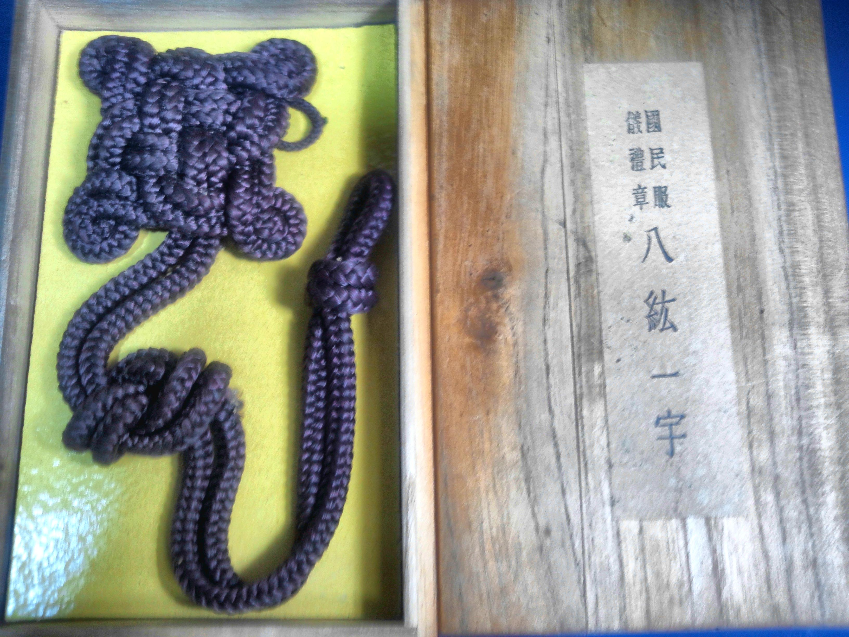 Aiguillette of Kokumin-Fuku (National Uniform for Japanese males during 1940-1945)